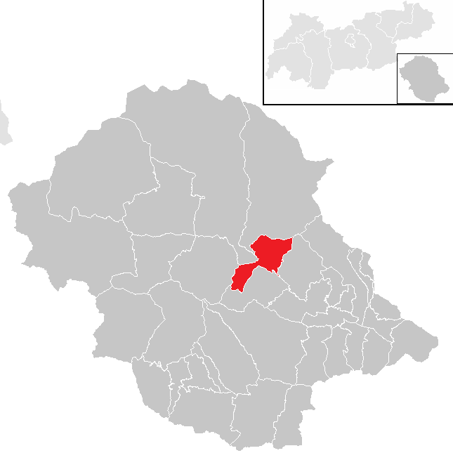 District Lienz